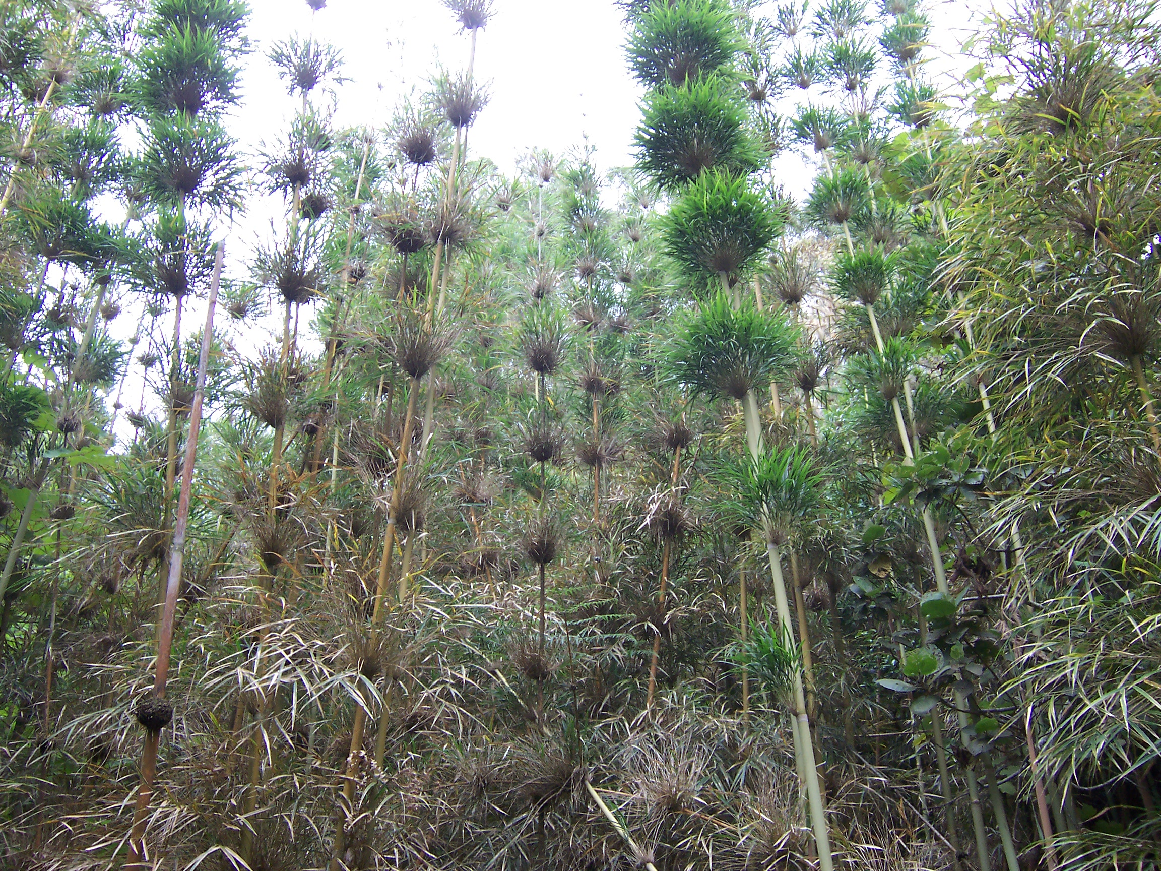 fr: Calumet (Nastus borbonicus) Photo: B.Navez - 2 MAR 2006 - Réunion island